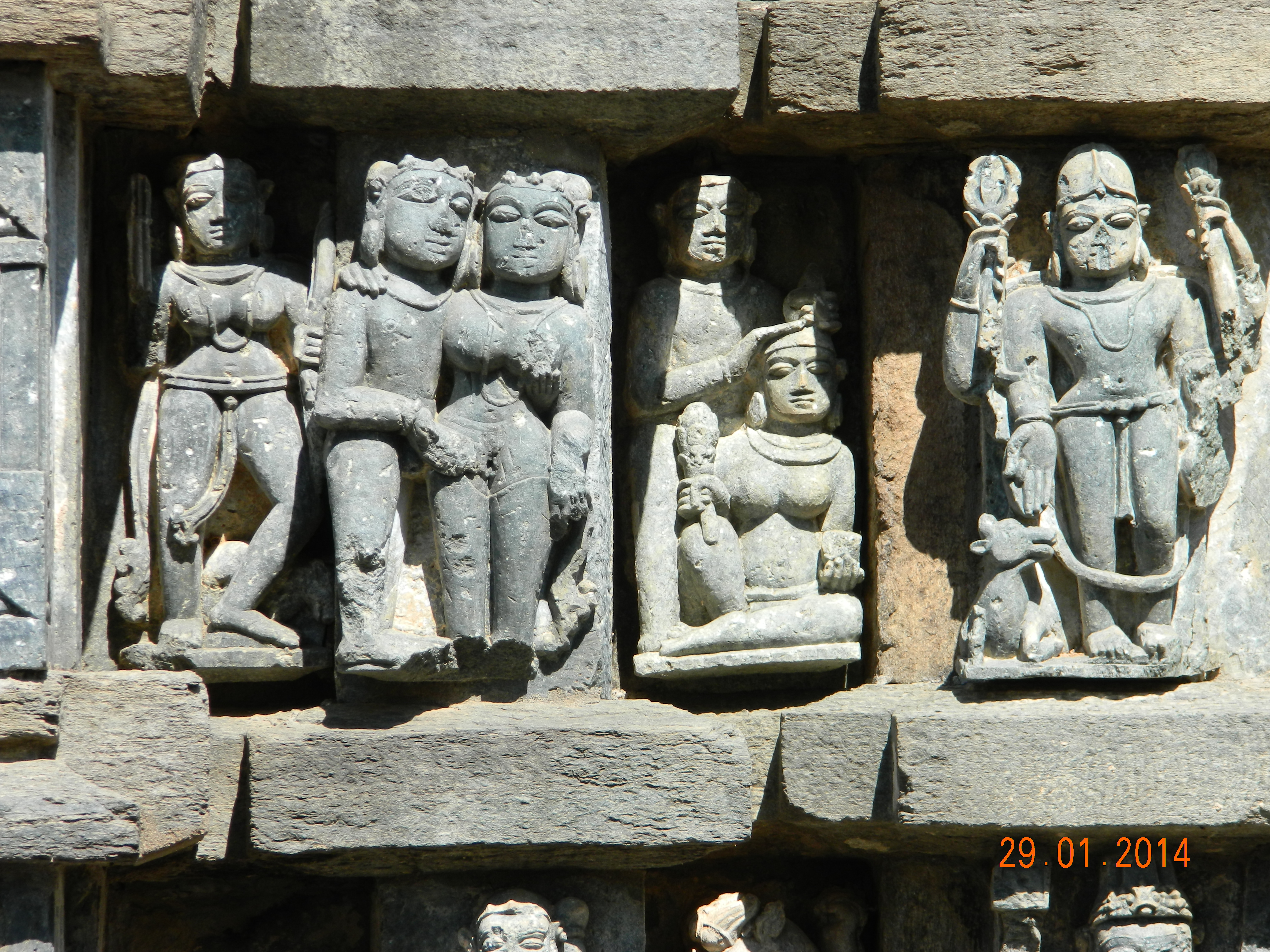 barsoor mandir murti